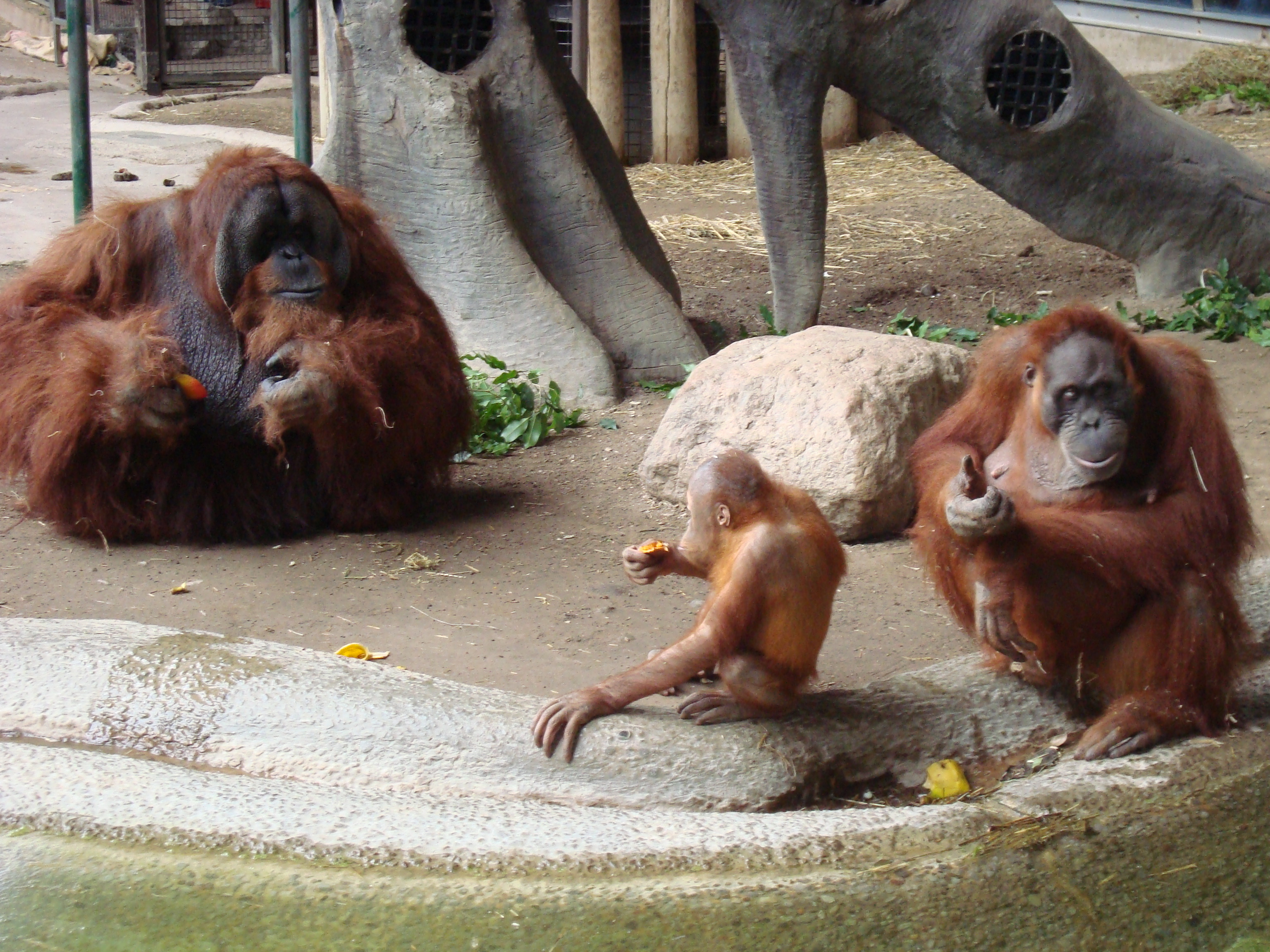 Male, female, and child Sumatran orangutans (pongo abelii) at lunch time in the Toronto Zoo.